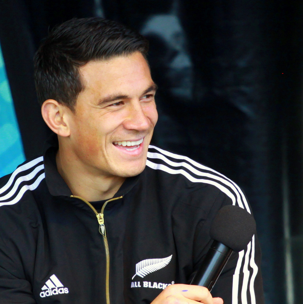 New Zealand rugby union player Sonny Bill Williams and the rest of the All Blacks visit Christchurch during the Rugby World Cup.